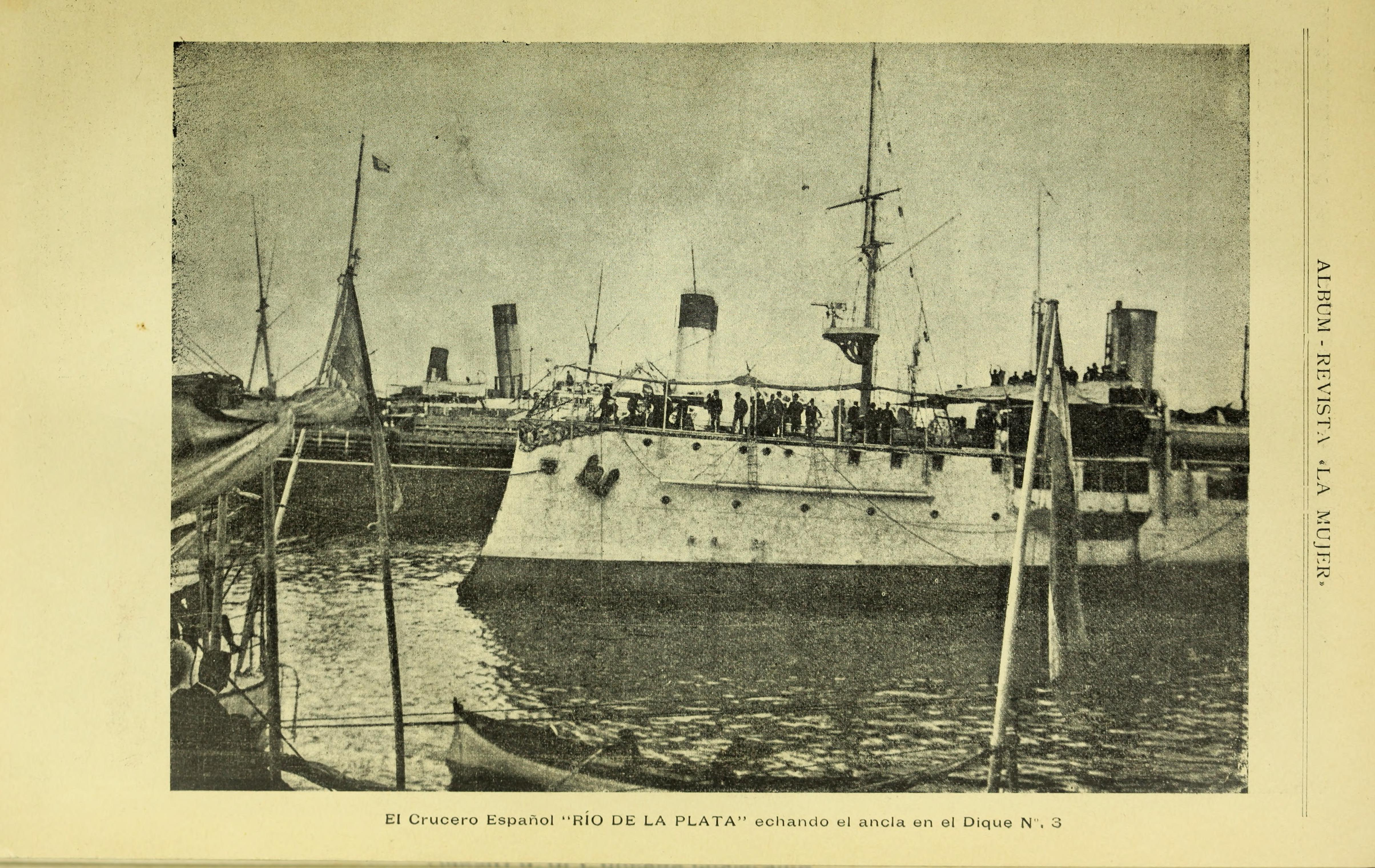 Title: La Mujer Year: 1899 (1890s) Authors: Subjects: Women Publisher: Buenos Aires : (s.n.) Text Appearing Before Image: honrado pabellón de lamadre patria, y una cariñosa bienvenida álos marinos españoles, cuya divisa ha sido yserá siempre: cuando no se puede vencer, sedebe saber morir. Toda la prensa de la República ha signifi-cado el placer esperimentado por la llegadadeWRío de la Plata» en términos que nopodrán olvidar jamás los marinos de la naveespañola. Entresacamos un párrafo del saludo de nues-tro estimado colega «La Prensa», que dice así:«La visita del *Río de la Plata» á nuestrasaguas contribuirá á estrechar mas y masnuestros vínculos con la nación española,que se han mantenido y se conservan sobreuna base de íeliz intimidad. Damos nuestra cordial bienvenida á los je-fes, oficiales y marinos que tripulan el cru-cero, y á la colectividad española un saludocariñoso en este día. que tendrá ocasión deadmirar su patriótica obra.» Por falta de espacio no damos cuenta delo dicho por nuestros apreciables colegas«La Nación», «El Diario», «El Tiempo» etc., etc. Text Appearing After Image: '